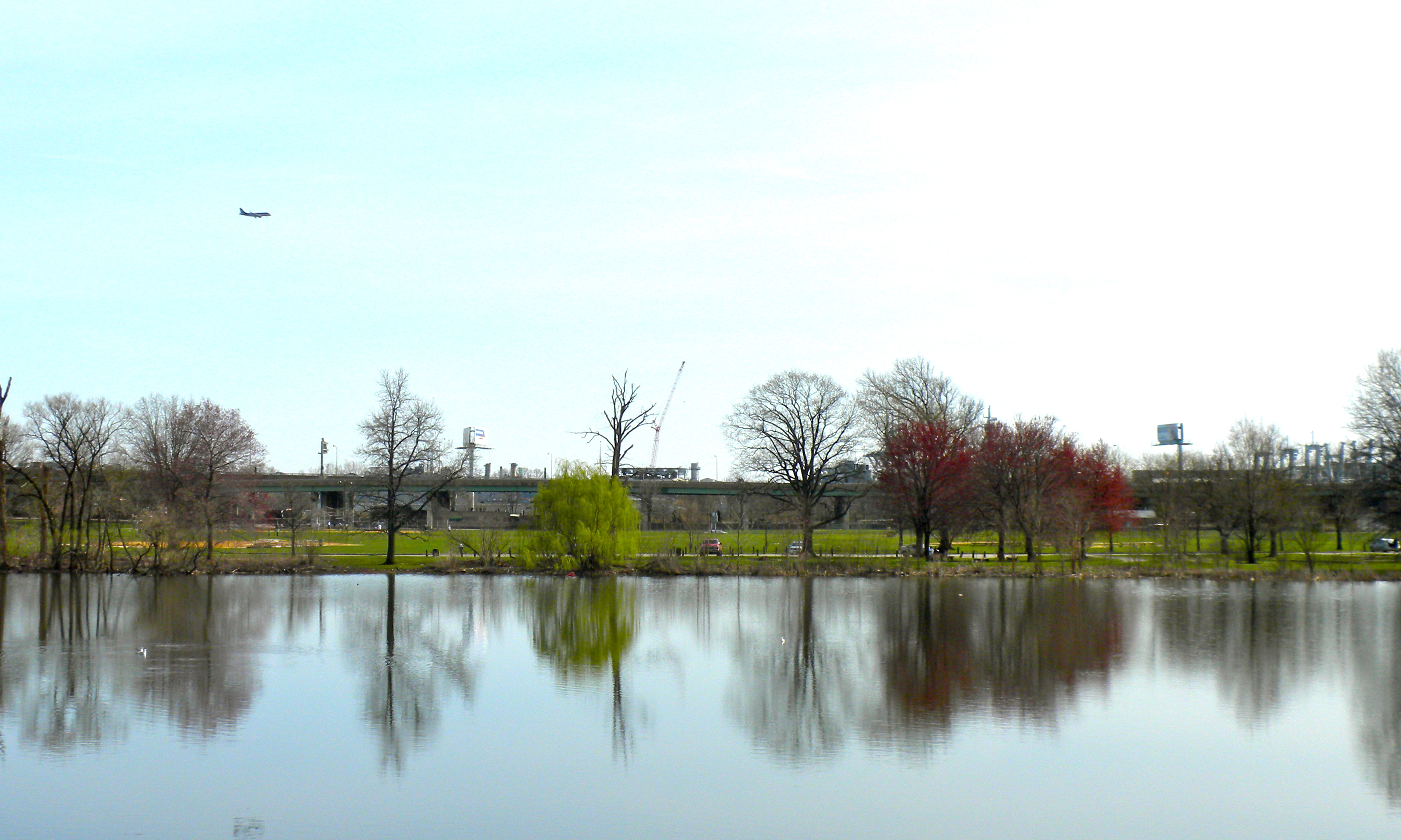 Franklin Delano Roosevelt Park in south Philadelphia. Meadow Lake in the foreground, then baseball fields, behind that is Interstate 95, and barely visible, the Philadelphia Shipyard. A jet is coming in to land at Philadelphia International Airport